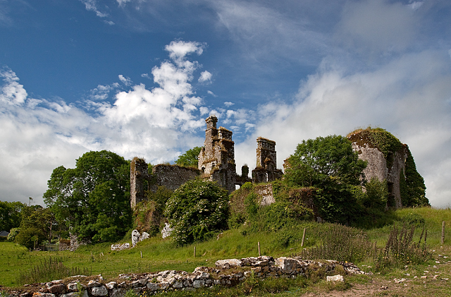 Castles of Munster: Castle Lyons, Cork One of the chief seats of the Barry family in the 13c, the southern part of this fortified house or stronghouse may well date from that period. It lies in a field off the main road behind a small industrial site, now quite ruinous and covered with encroaching foliage. With most of its walls over 4 feet thick, it was quite capable of being defended almost as well as any castle, when during the turmoil of the 1640s the mansion became an important English stronghold against the rebel Irish. After its commander Sir Charles Vavasour's defeat at Manning Ford, Castle Lyons was captured by Lord Castlehaven. Although not lived in by the Barrymores at the time, It remained habitable until 1771, when it was accidentally destroyed by fire caused by careless workmen.